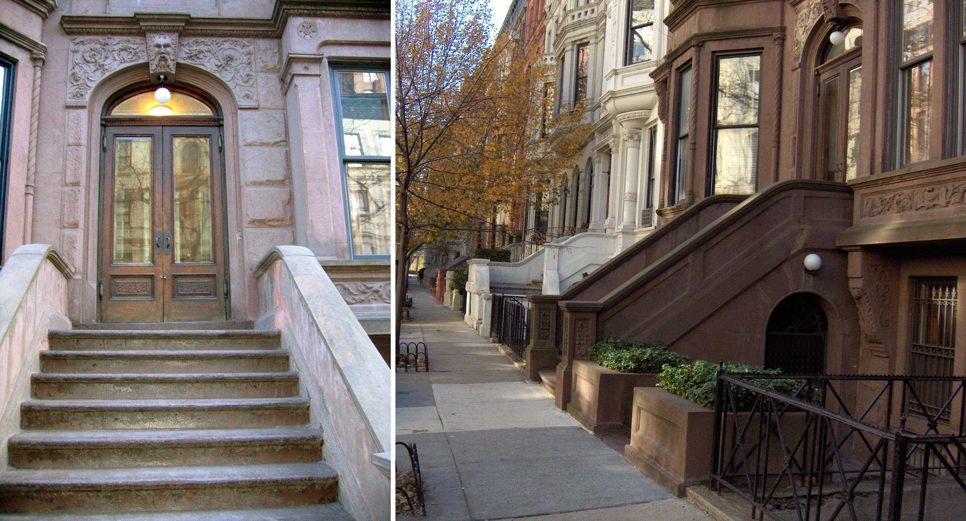 Brownstone on Upper West Side, New York City, New York, used for exteriors of the A&E TV series A Nero Wolfe Mystery. The files Wolfe-NWM-Brownstone-1.jpg and Wolfe-NWM-Brownstone-2.jpg are combined as a single image.